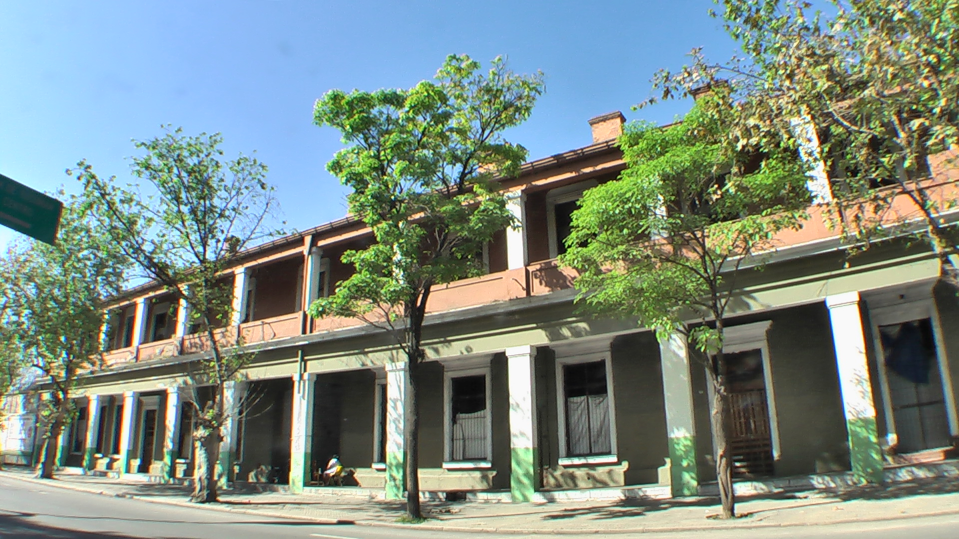 Tucumán train station of , also named "Provincial", on Roca avenue 600. The building operated both, passenger and freight services until the 1970s when passengers traffic was moved to El Bajo station.